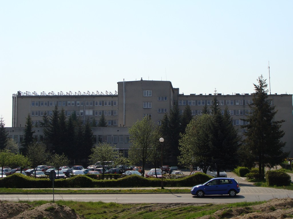 Śrem, hospital.